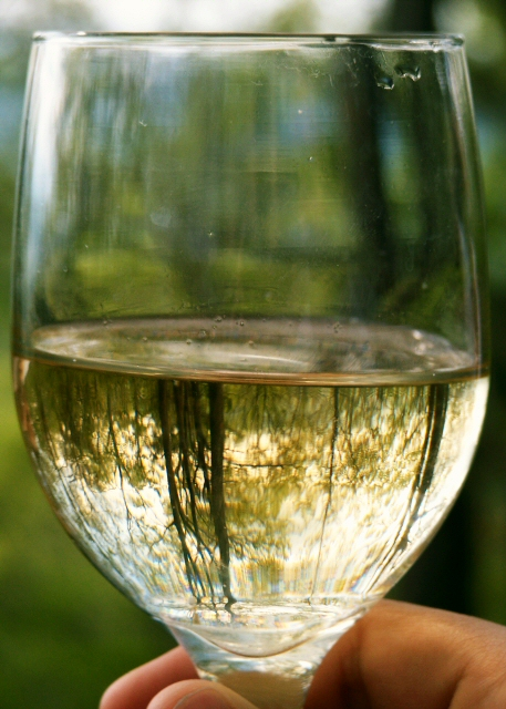 A glass of white wine made from the hybrid grape Vignoles.